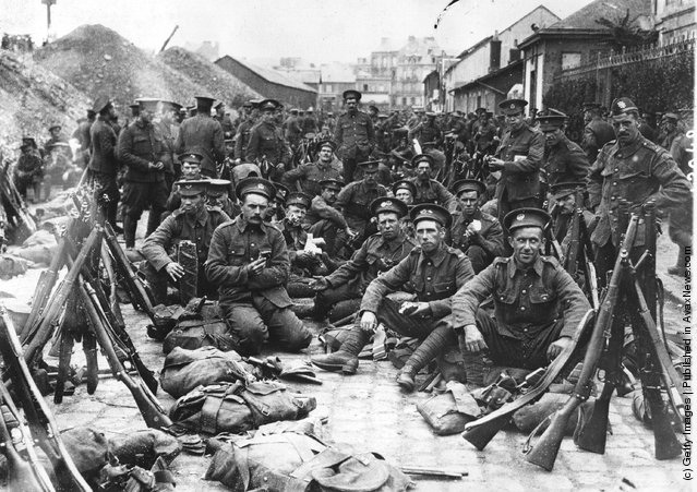 World war 1